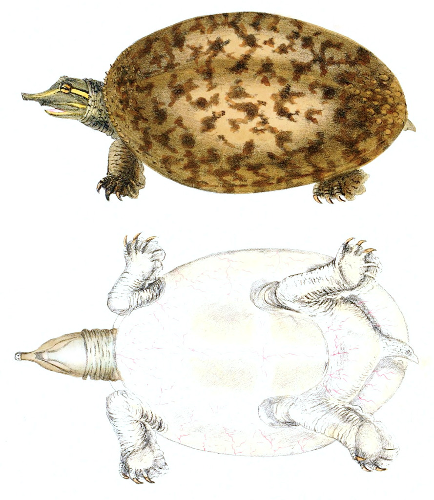 Florida Softshell Turtle, Apalone ferox, hand-colored lithograph